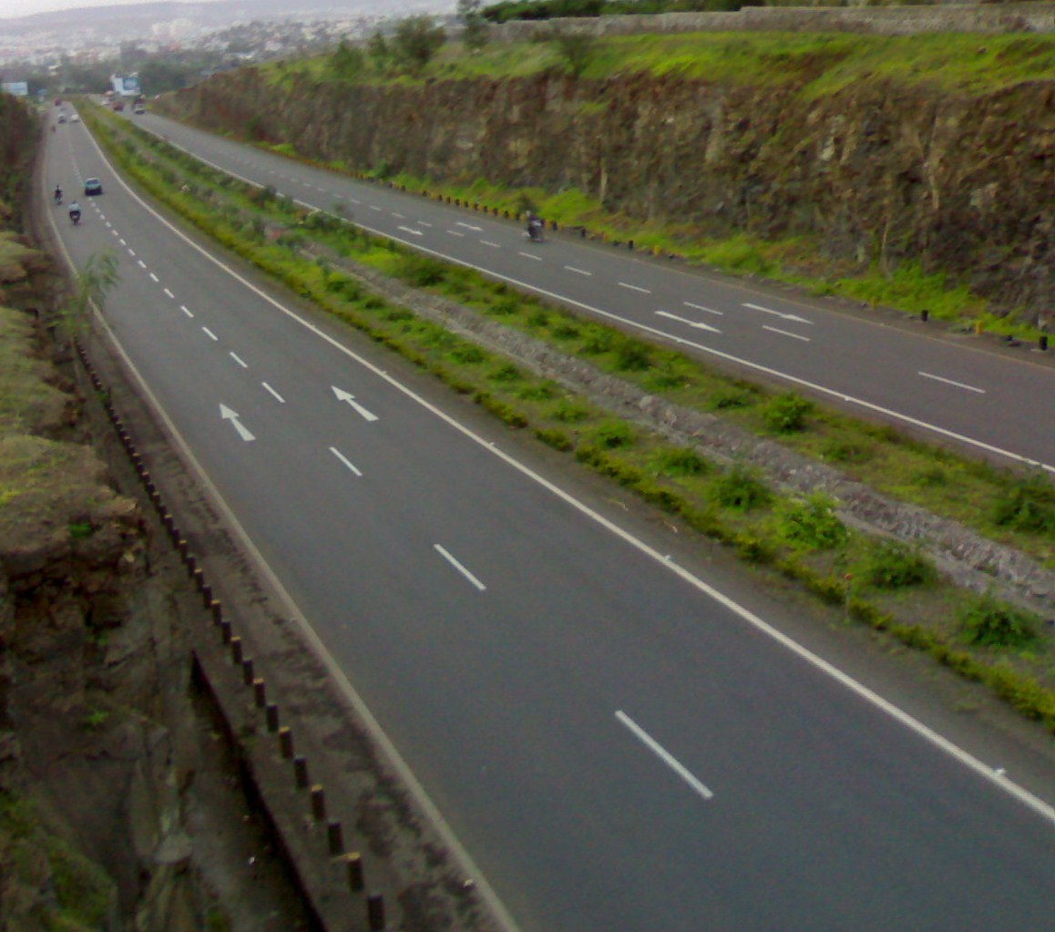 Pune Mumbai Bangalore bypass Highway Pune city section near sinhagad road